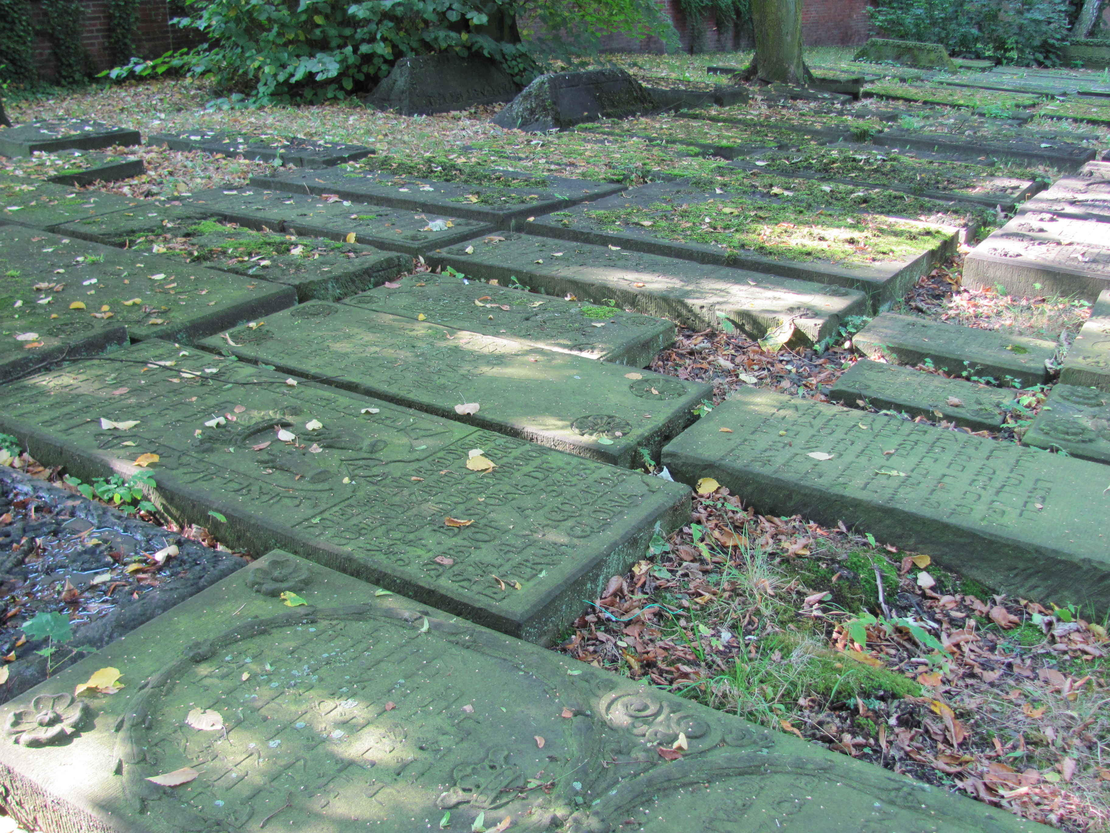 At the Sephardic part of the Jewish cemetery at Königstraße in Hamburg-Altona This is a photograph of an architectural monument.